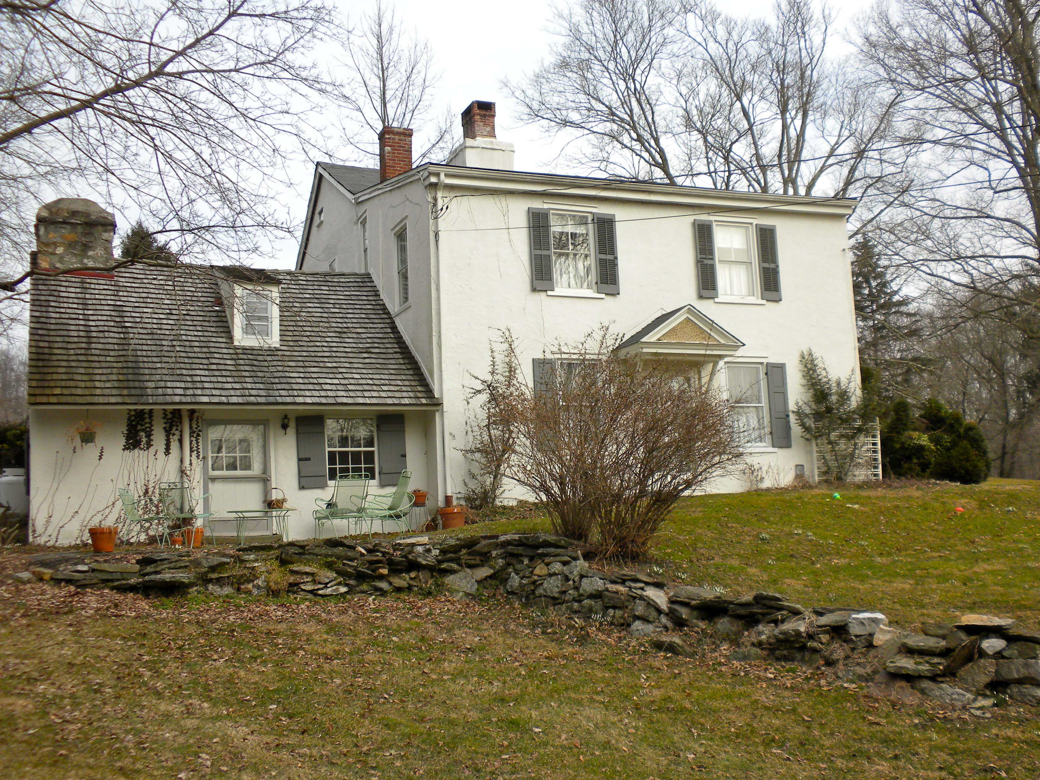 Hayes Homestead in Embreeville, PA, near Star Gazers' Farm, on NRHP since September 16, 1985 Pennsylvania Route 162 and Harvey's Bridge Road in Newlin Township, Chester County, PA